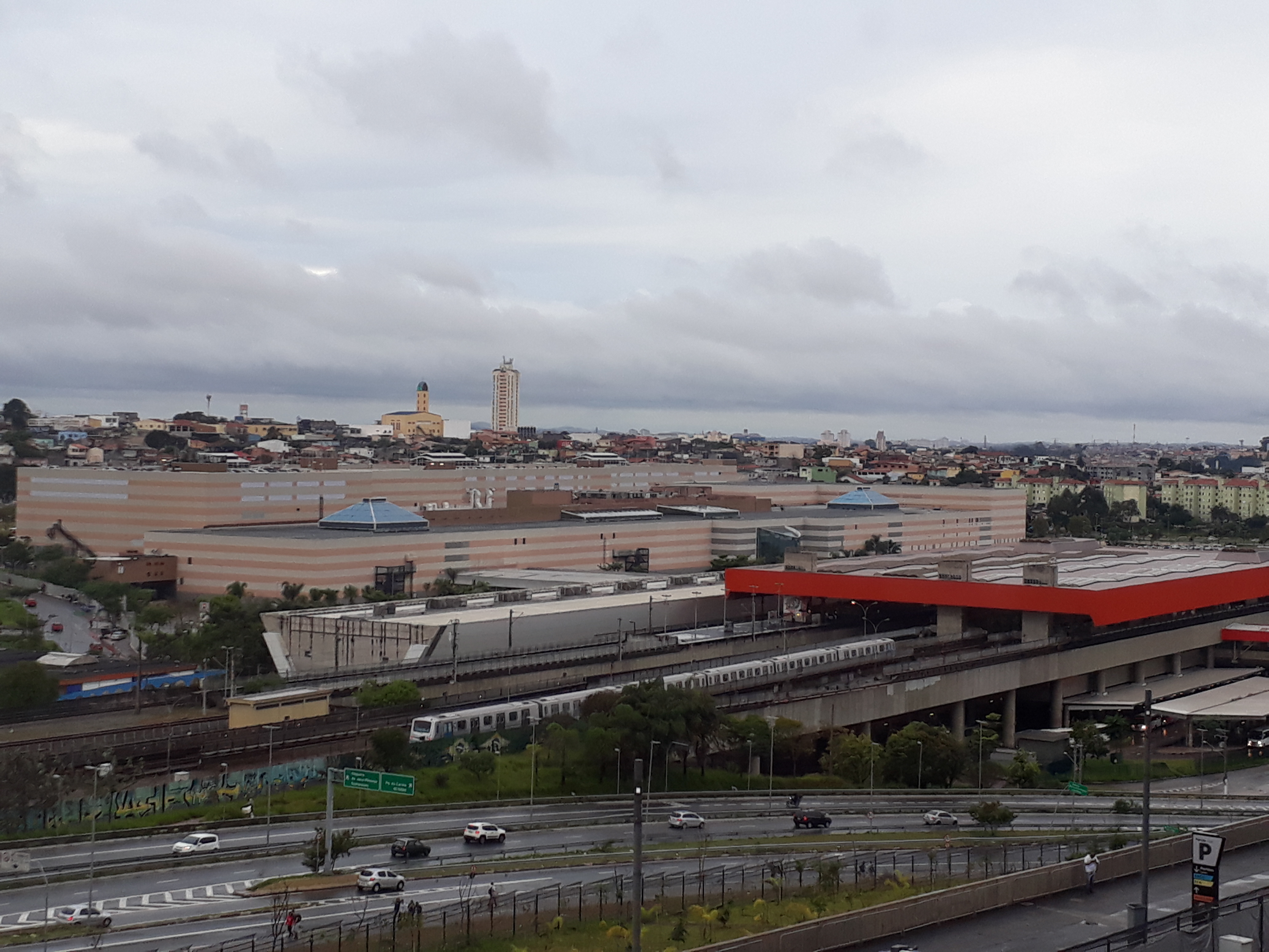 Shopping Subway Itaquera, near Corinthians Arena